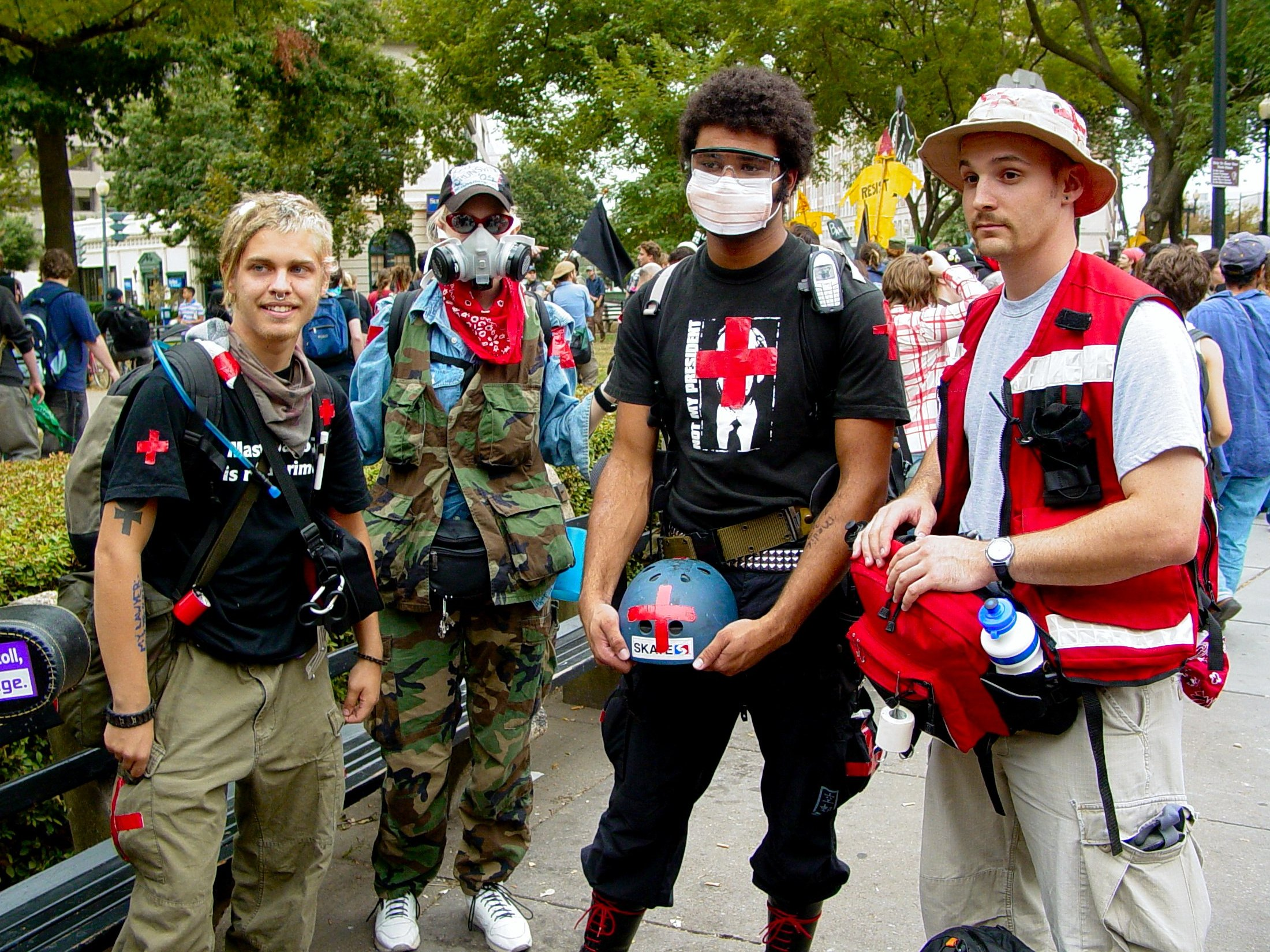 Street medics pose for a photo at Dupont Circle. From the September 24, 2005 anti-war protest in Washington DC.